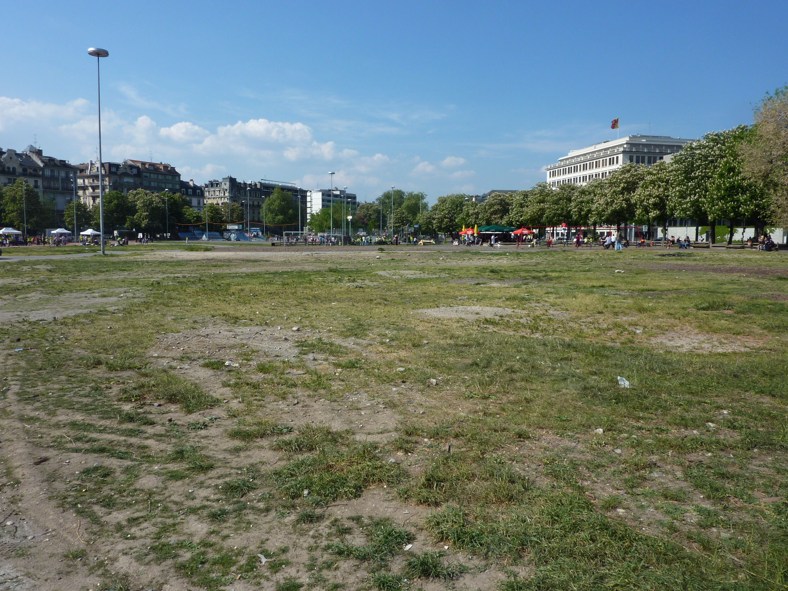 Plaine de Plainpalais in Geneva, Switzerland